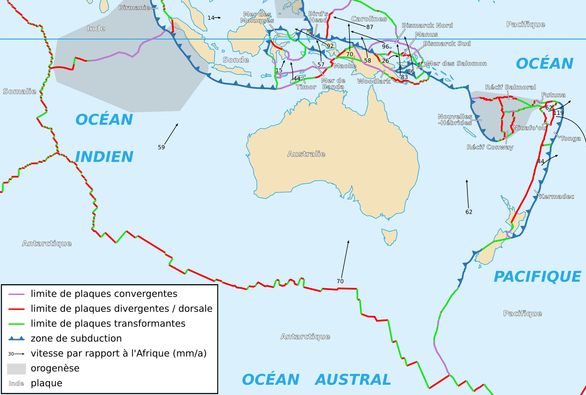 Map of the Australian Plate